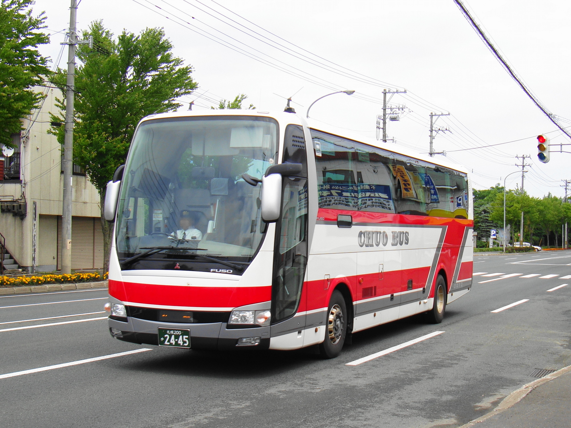 "Dreamint Okhotsk gō" Abashiri to Sapporo